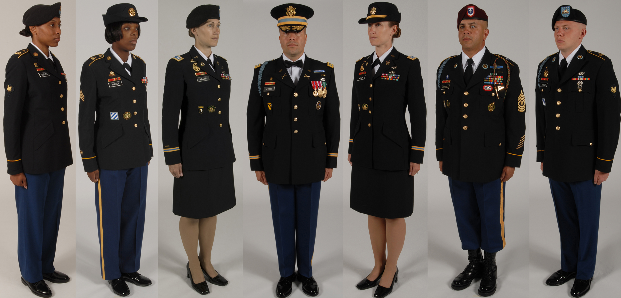 New Army Class “A” Service Uniform.